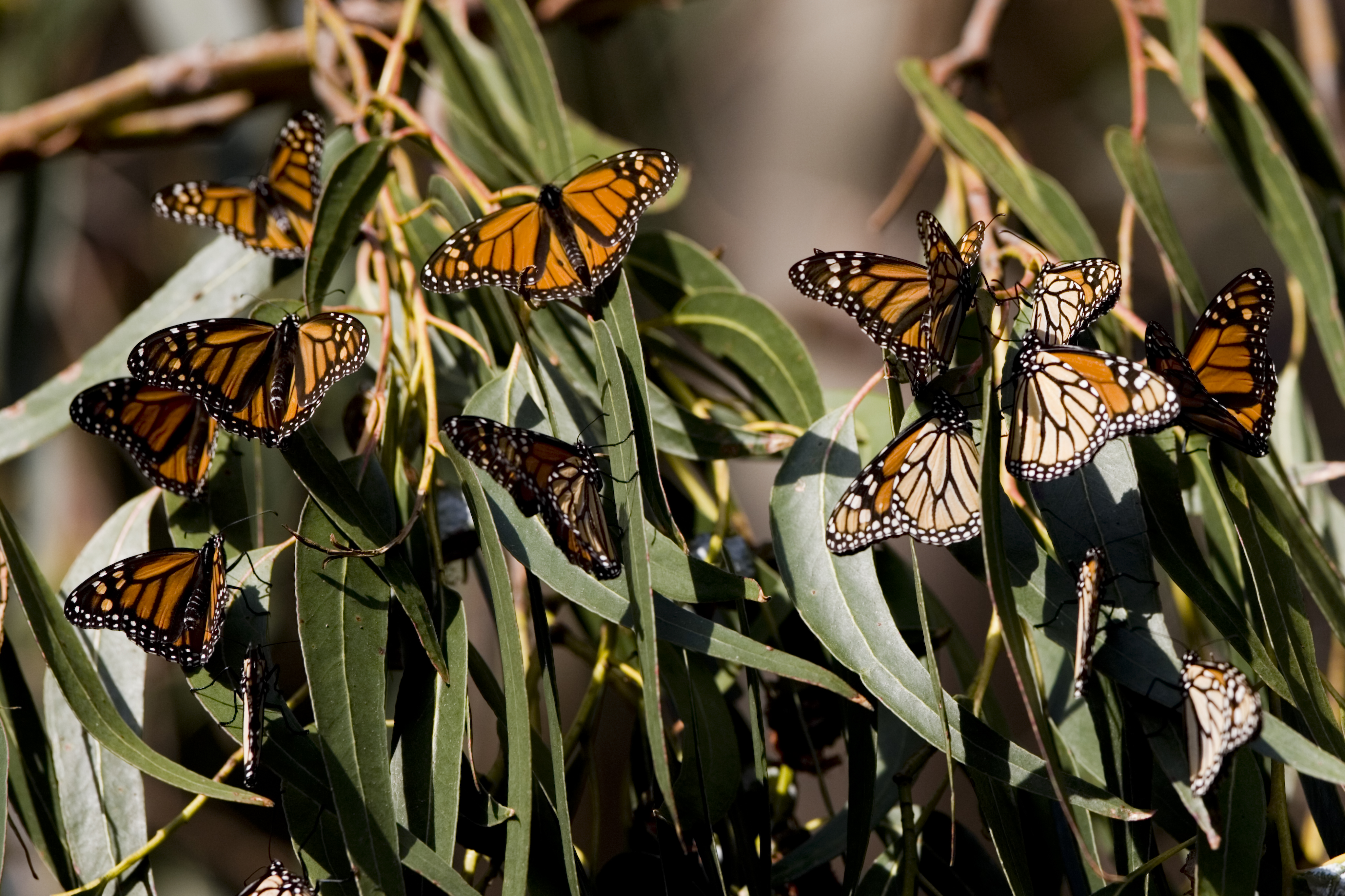 Some Monarch Butterflies also known as Danaus plexippus.. On a Eucalyptus branch at Sweet Springs in Baywood-Los Osos. Located near Morro Bay in San Luis Obispo County, central California. Credits Copyright Mike Baird, Published under